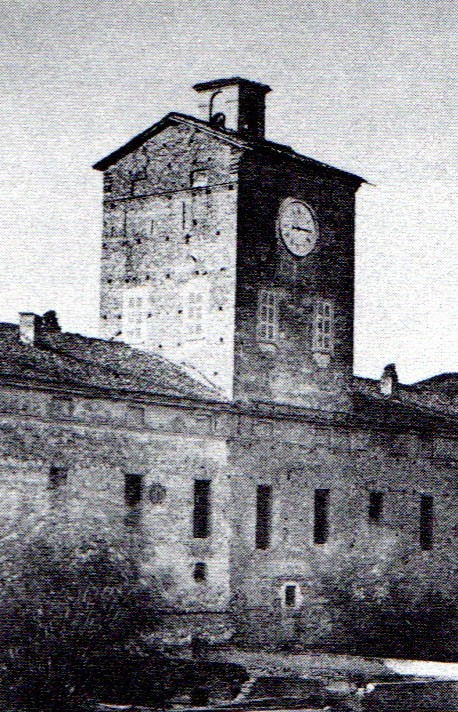 Castle